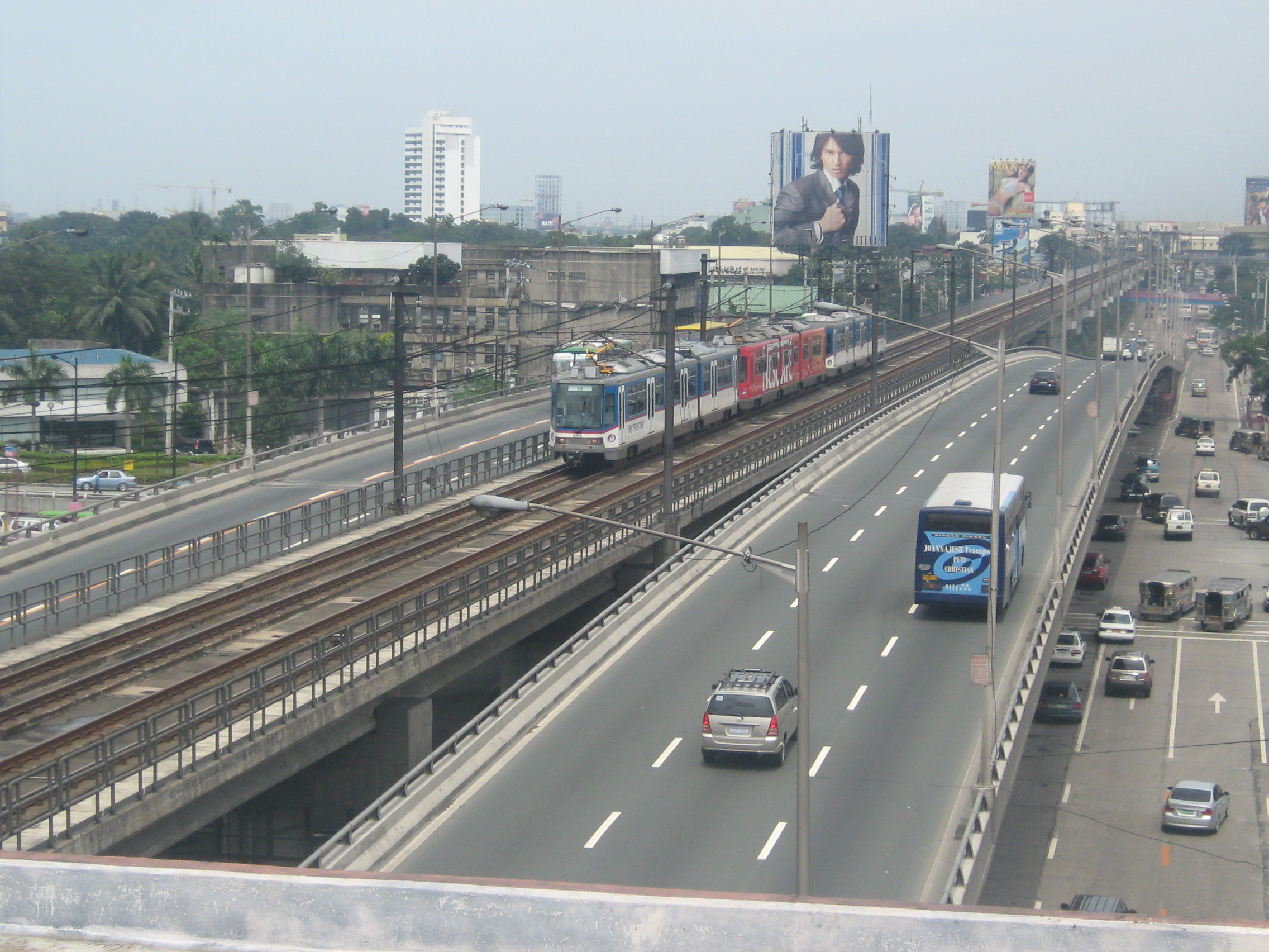 MRT-3 train in between the EDSA-Quezon Avenue Flyover going towards Quezon Avenue Station.